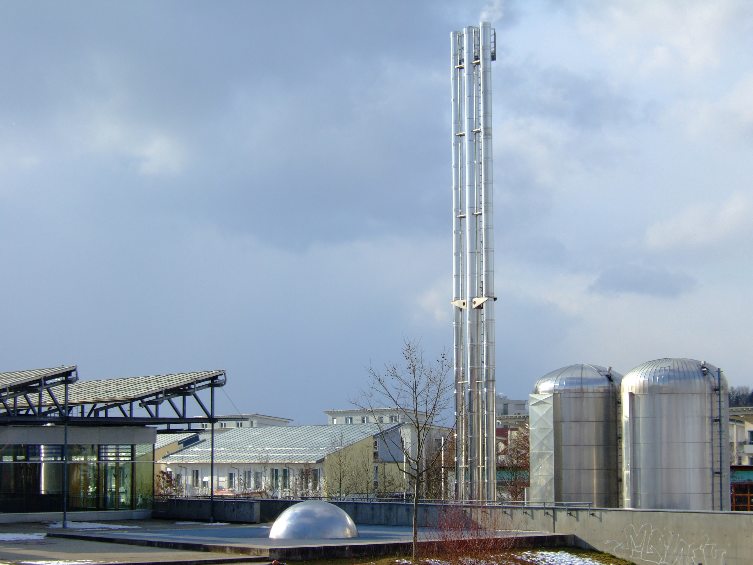 Central Heating Station And Solar Collectors (left) of NSU-Amorbach II, 2006